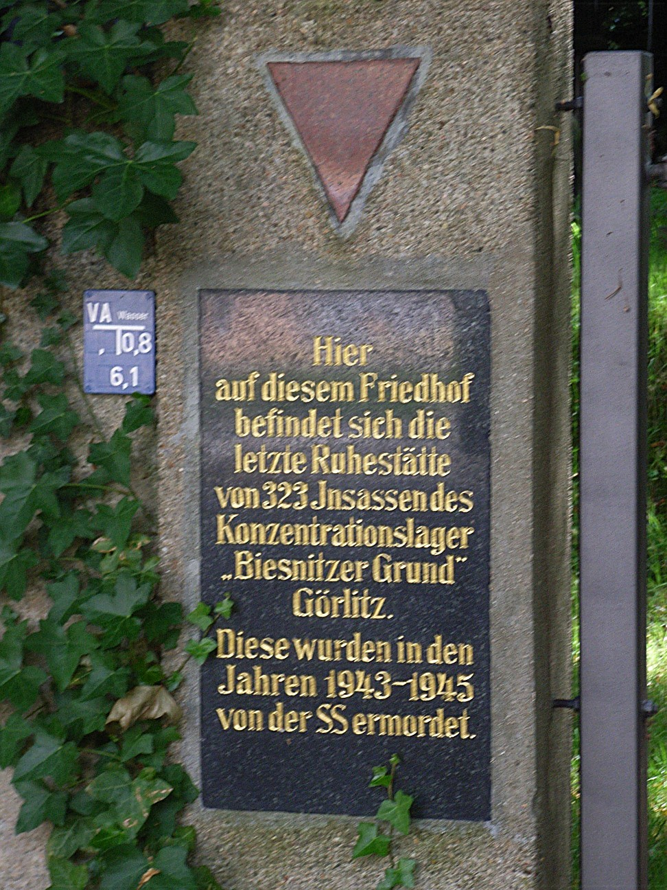 Jewish cemetery at the Biesnitzer Street in Görlitz, Saxony